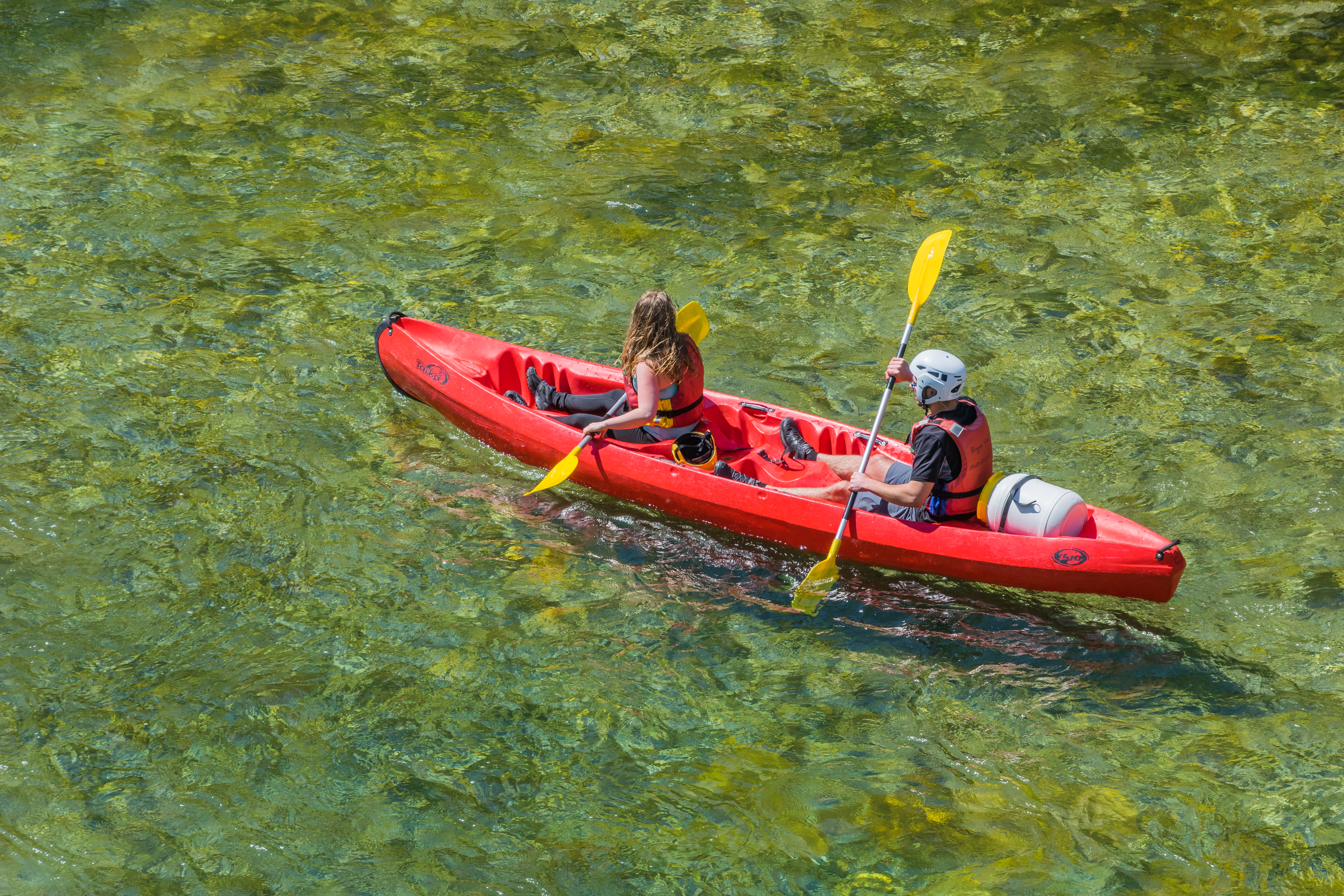 Canoeing on Tarn River in Les Vignes, Lozère, France